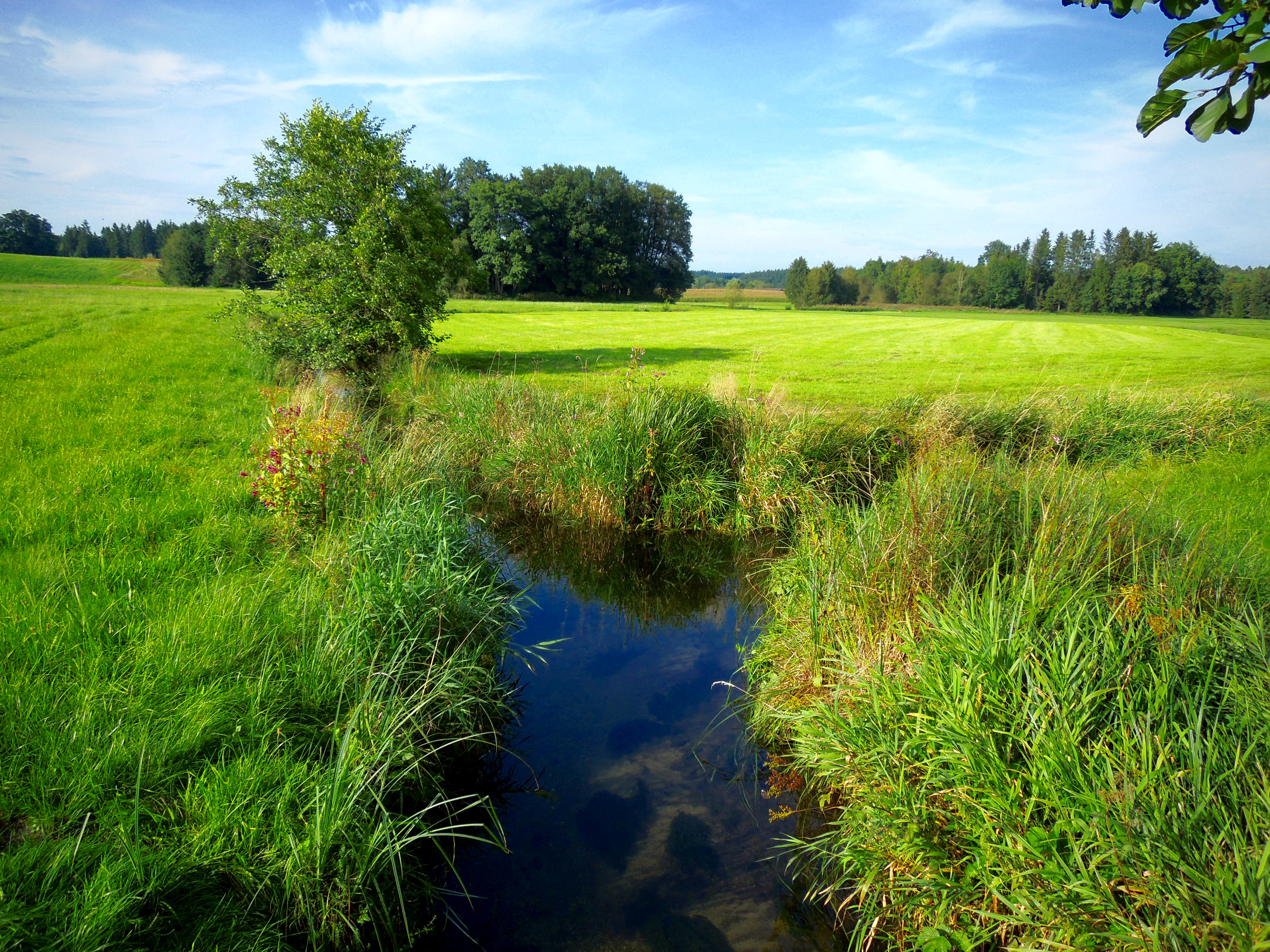 The start/source of the river "Murn" in Germany.